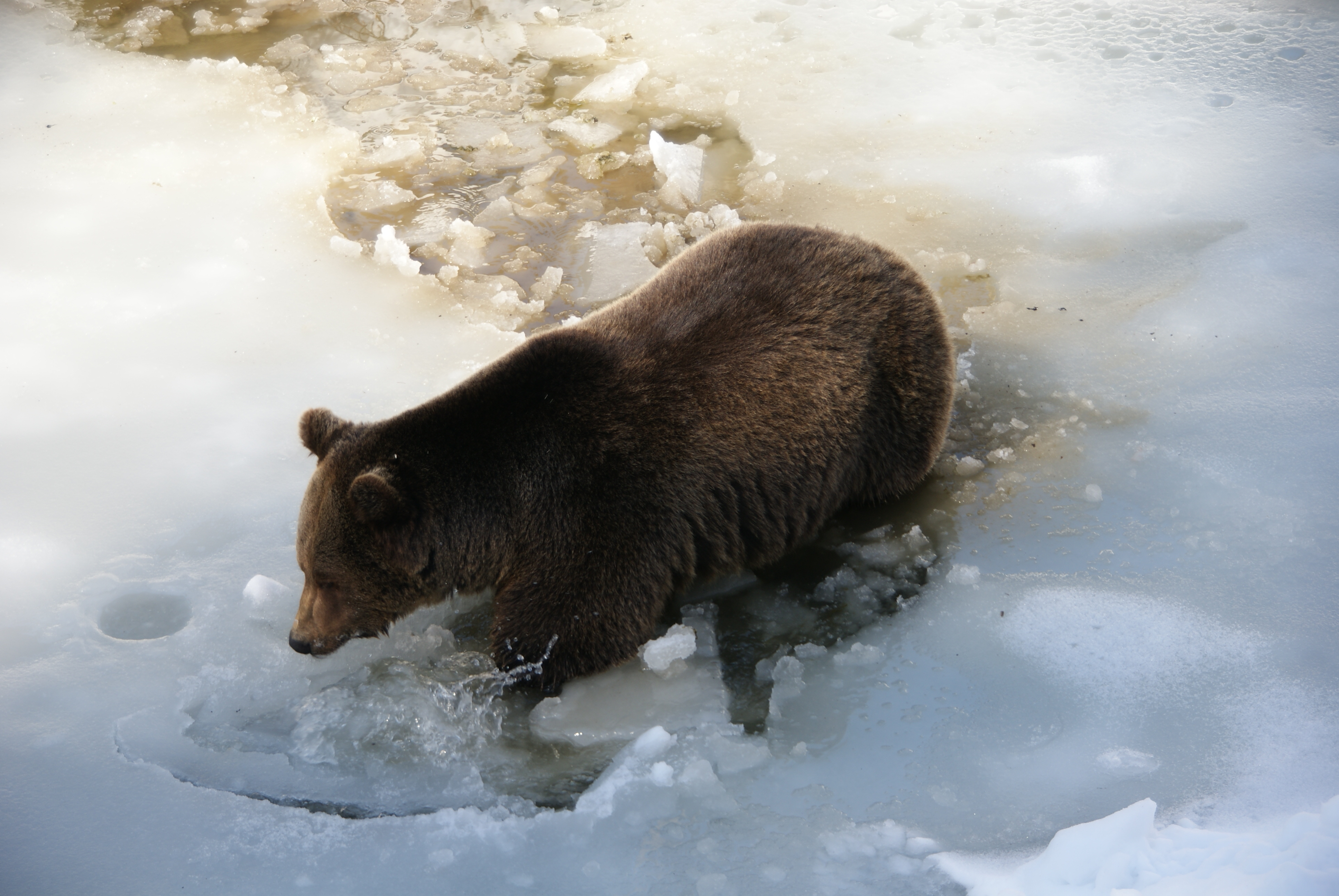 Brown Bear in an open-air enclosure at the National Park Bavarian Forest